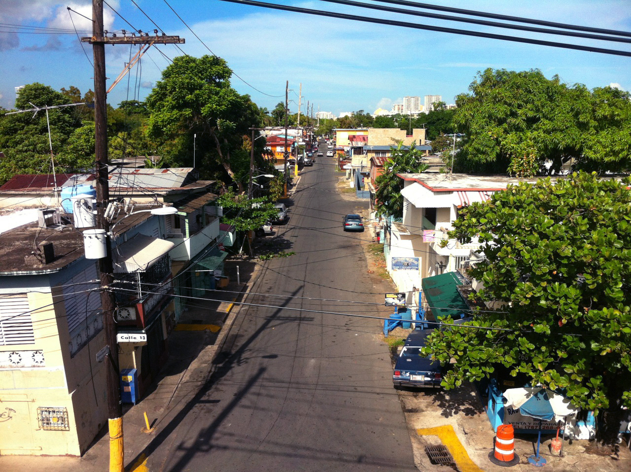 In the beginning of the twentieth century, during a time of hardship and extreme poverty, many Puerto Ricans migrated to the larger coastal cities on the Island in search of employment and a better life. In the process of laying a solid foundation for their homes and families, these people gave rise to a number of close-knit communities; they established the precedent so that others in similar situations would have at the very least a glimmer of hope for a brighter future for themselves and their families. — The Caño Martín Peña Community Land Trust is Struggling to Survive, extract by María E. Hernández-Torrales, member of the Board of Trustees of the Fideicomiso de la Tierra del Caño Martín Peña.